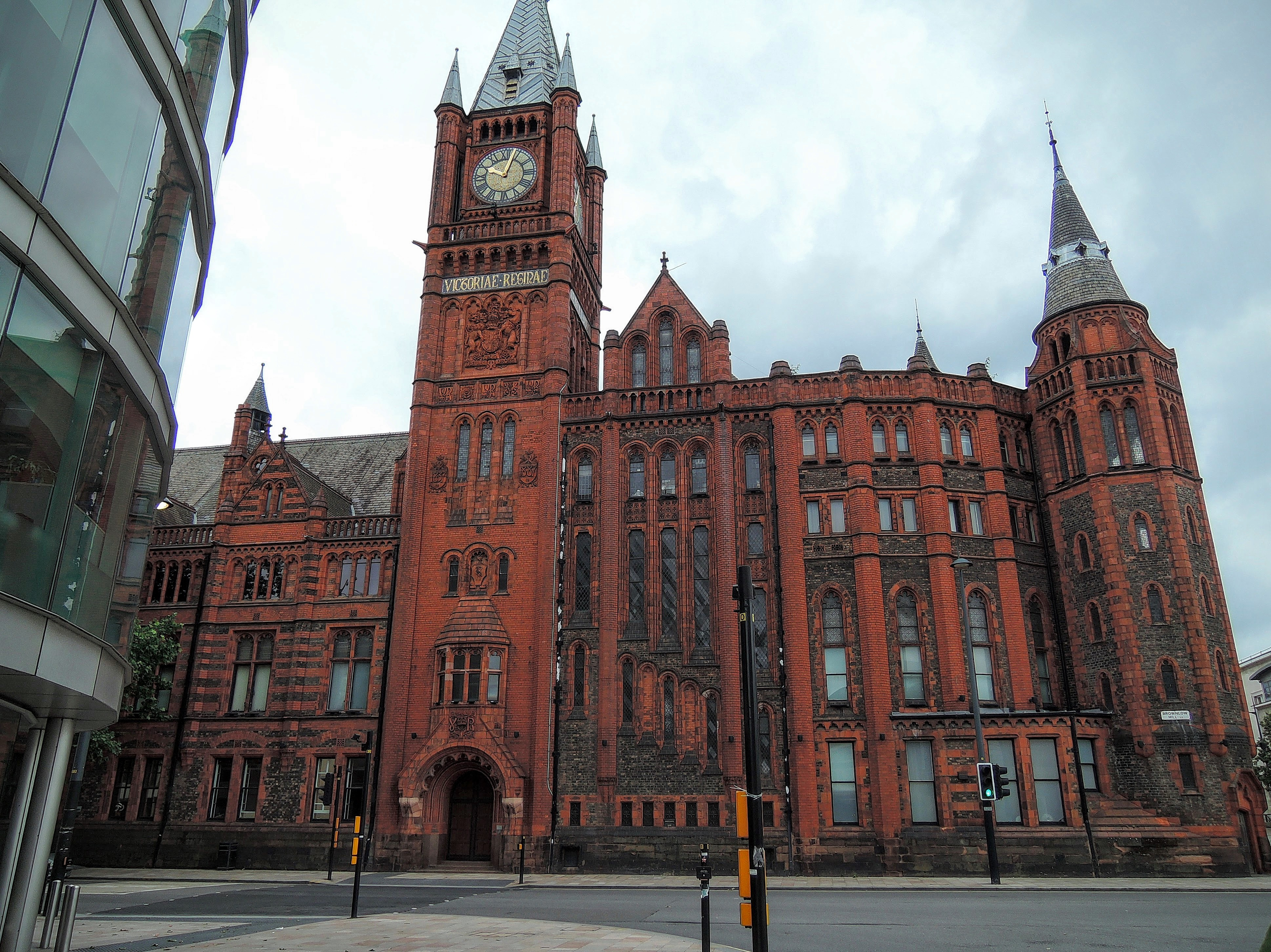 Liverpool, UK